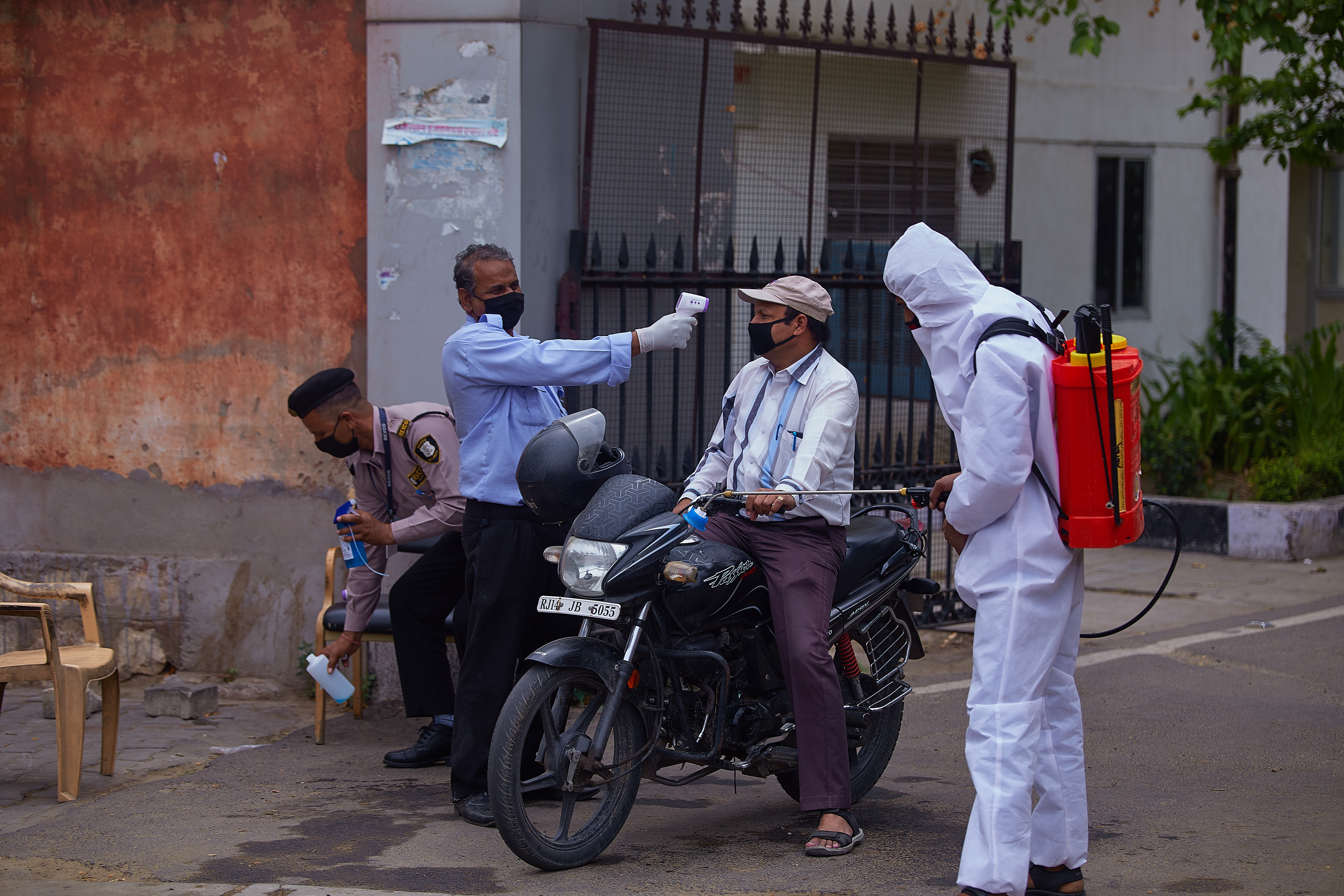 during lockdown health check